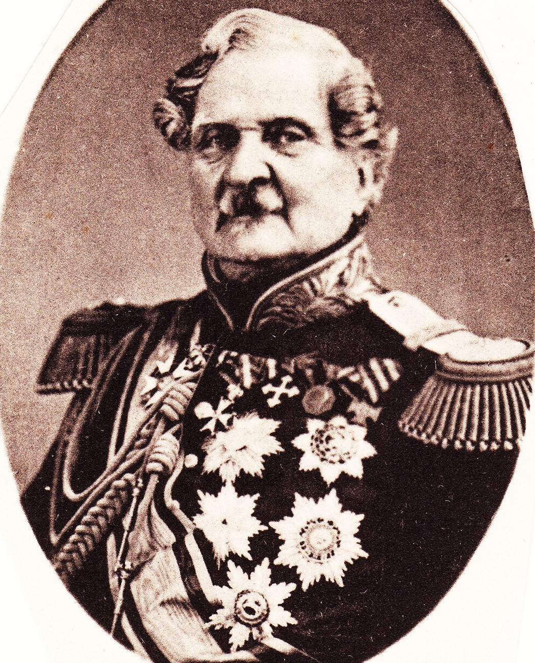 Generaal de Stuers